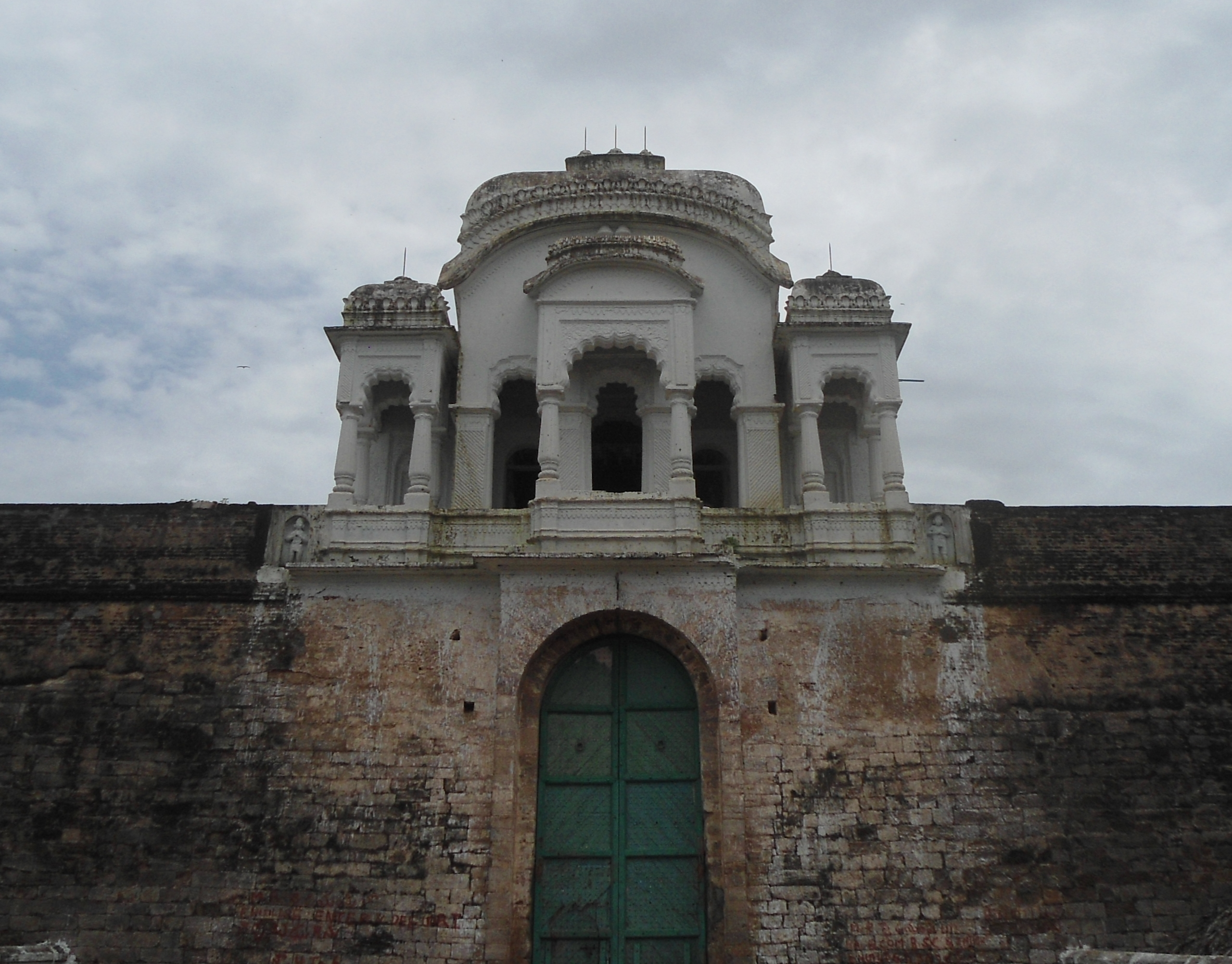 The West side gateway of Vizianagaram fort in Andhra pradesh